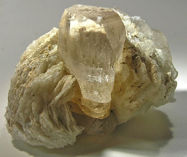 Topaz, Albite Locality: Gaoligong Mts (Gaoligong Shan), Nujiang Autonomous Prefecture, Yunnan Province, China (Locality at ) Size: 5.5 x 4.5 x 3.9 cm. A VERY gemmy topaz, with blocky form and corner bevels, nestled in a bed of bladed albite. The topaz measures 3.4 cm top to bottom. There is a very slight bit of edge wear.